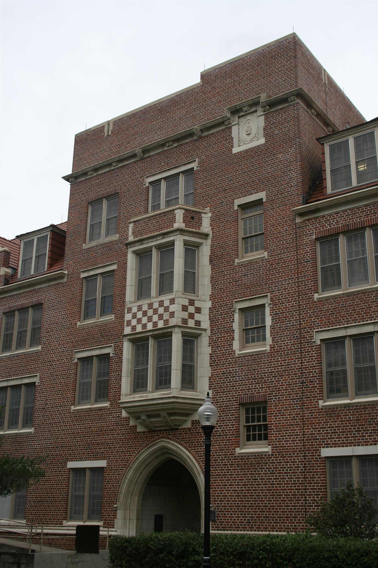 On 5 January 2007 I took pictures of most of the buildings on the UF campus that are designated National Historic Places. The only two buildings I didn't take pictures of are the Old WRUF station building and the Women's Gym. The day was overcast and about to rain so the skies aren't so great, but I think they get the job done. If I get any better shots of these buildings I'll upload them in place of the older ones. This message will be the same on all the images. --Douglas Whitaker 06:35, 6 January 2007 (UTC)